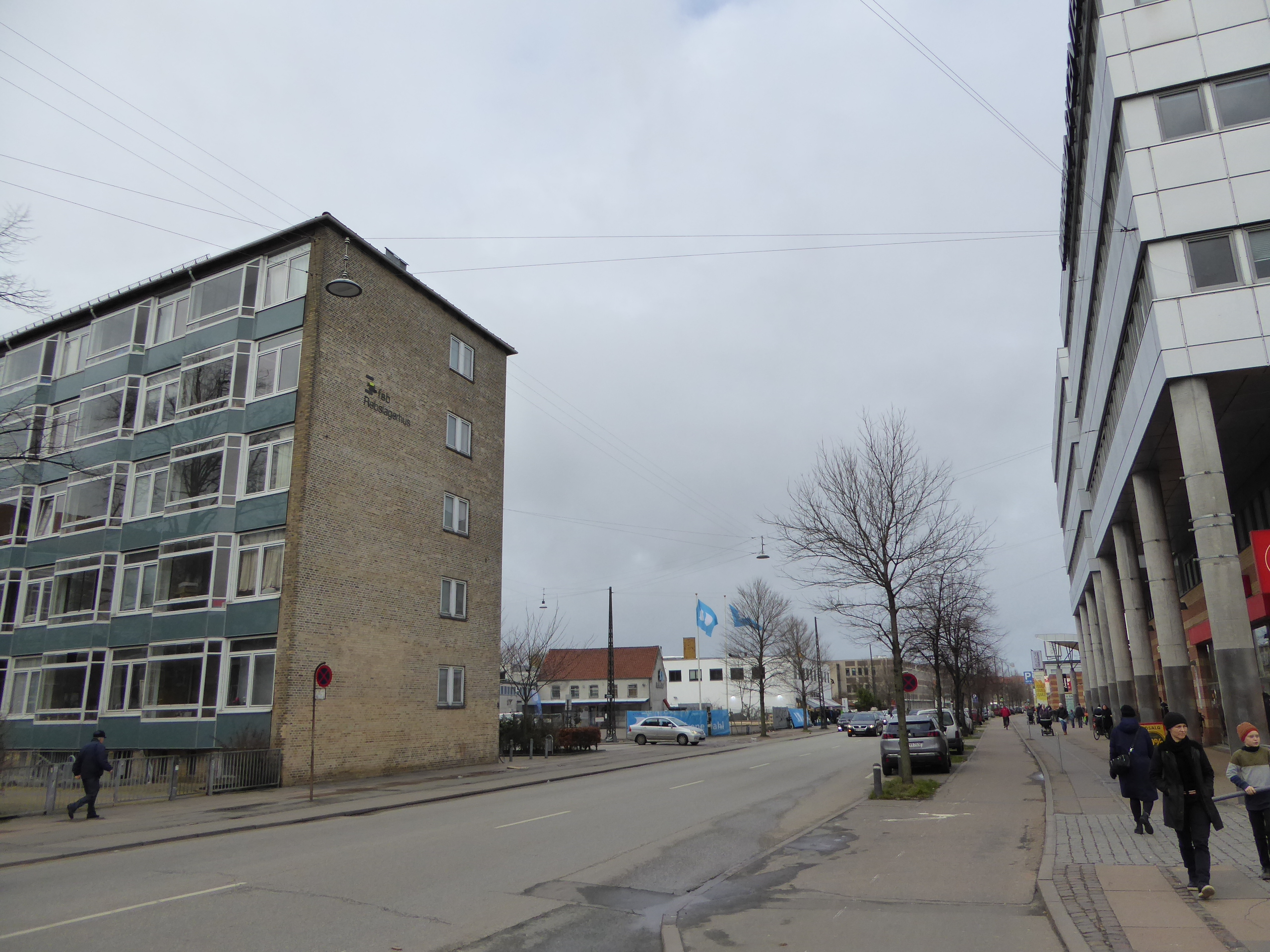 The street Lygten in Nordvest in Copenhagen.